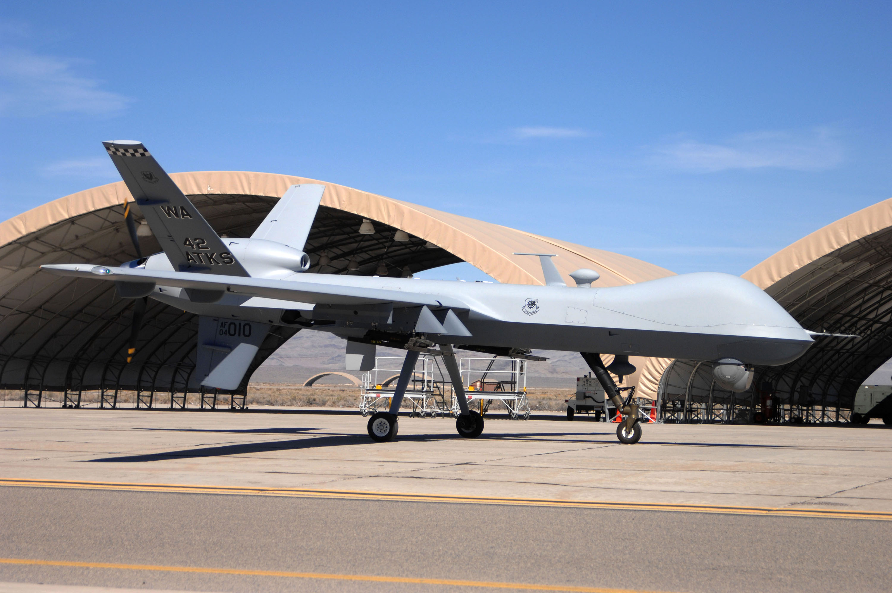 First MQ-9 Reaper makes its home on Nevada flightline: The MQ-9 Reaper Unmanned Aerial Vehicle taxis into Creech Air Force Base, Nevada, March 13 marking the first operational airframe of its kind to land here. This Reaper is the first of many soon to be assigned to the 42nd Attack Squadron.